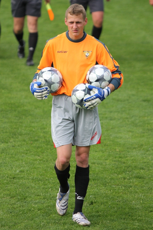 Povilas Valinčius playing for Vėtra Vilnius.